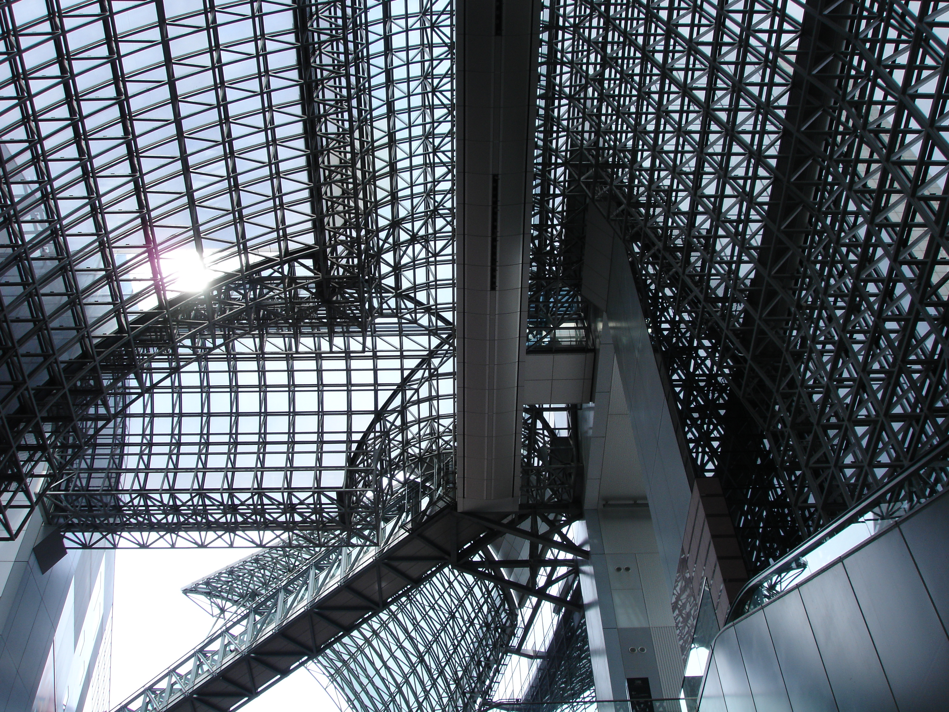 Interior view of the roof architecture in Kyoto Station.